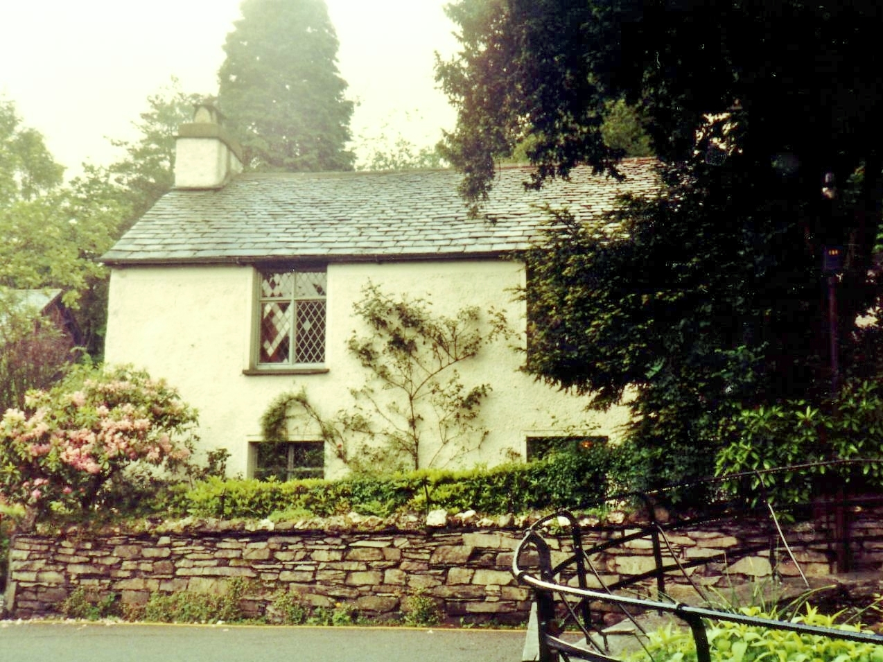 Dove Cottage was built in the early 17th century. It was built as a public house called the "Dove and Olive" in 1617. It remained a public house, sometimes called the "Dove and Olive Branch", until it closed in 1793. It is best known as the home of the poet William Wordsworth and his sister Dorothy Wordsworth from December 1799 to May 1808. It is now owned by the National Trust.